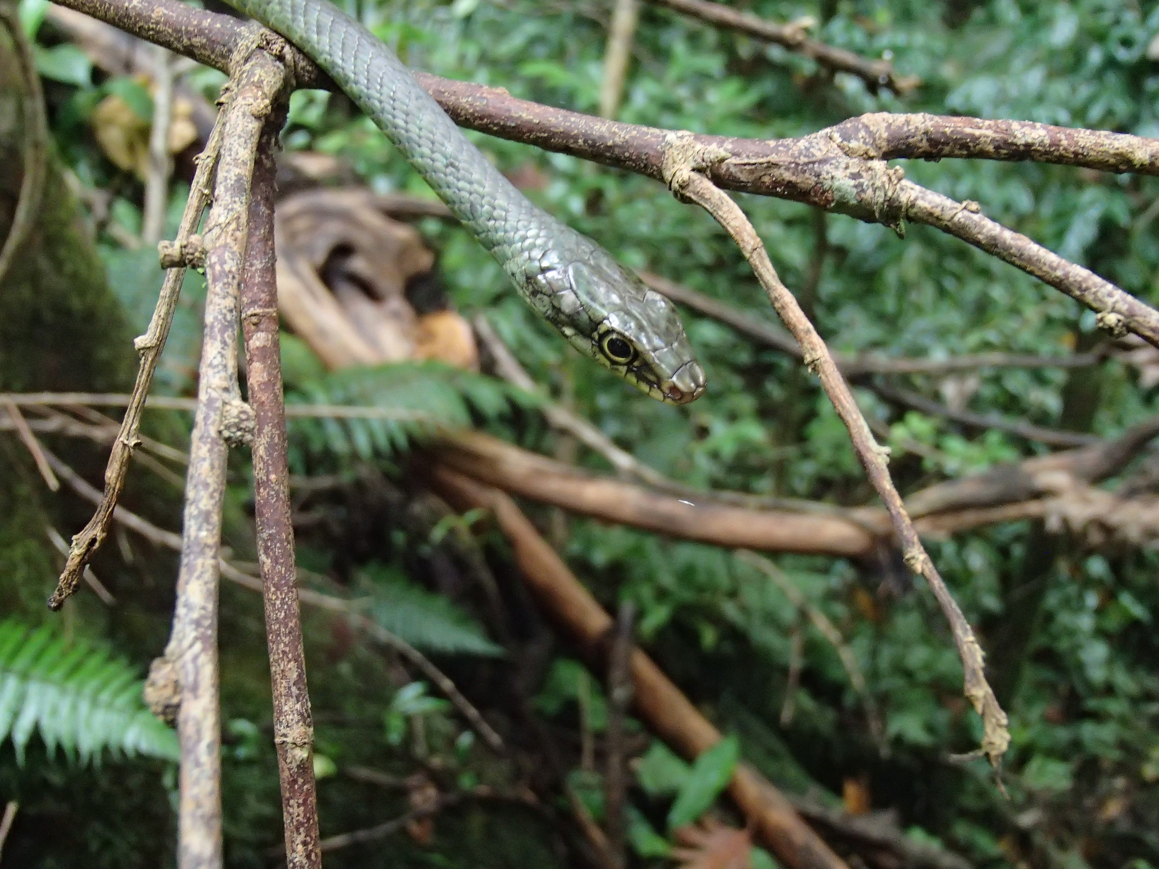 Philothamnus thomensis or Suá-suá de São Tomé.on the way from Roça São João dos Angolares to Roça Vale Carmo